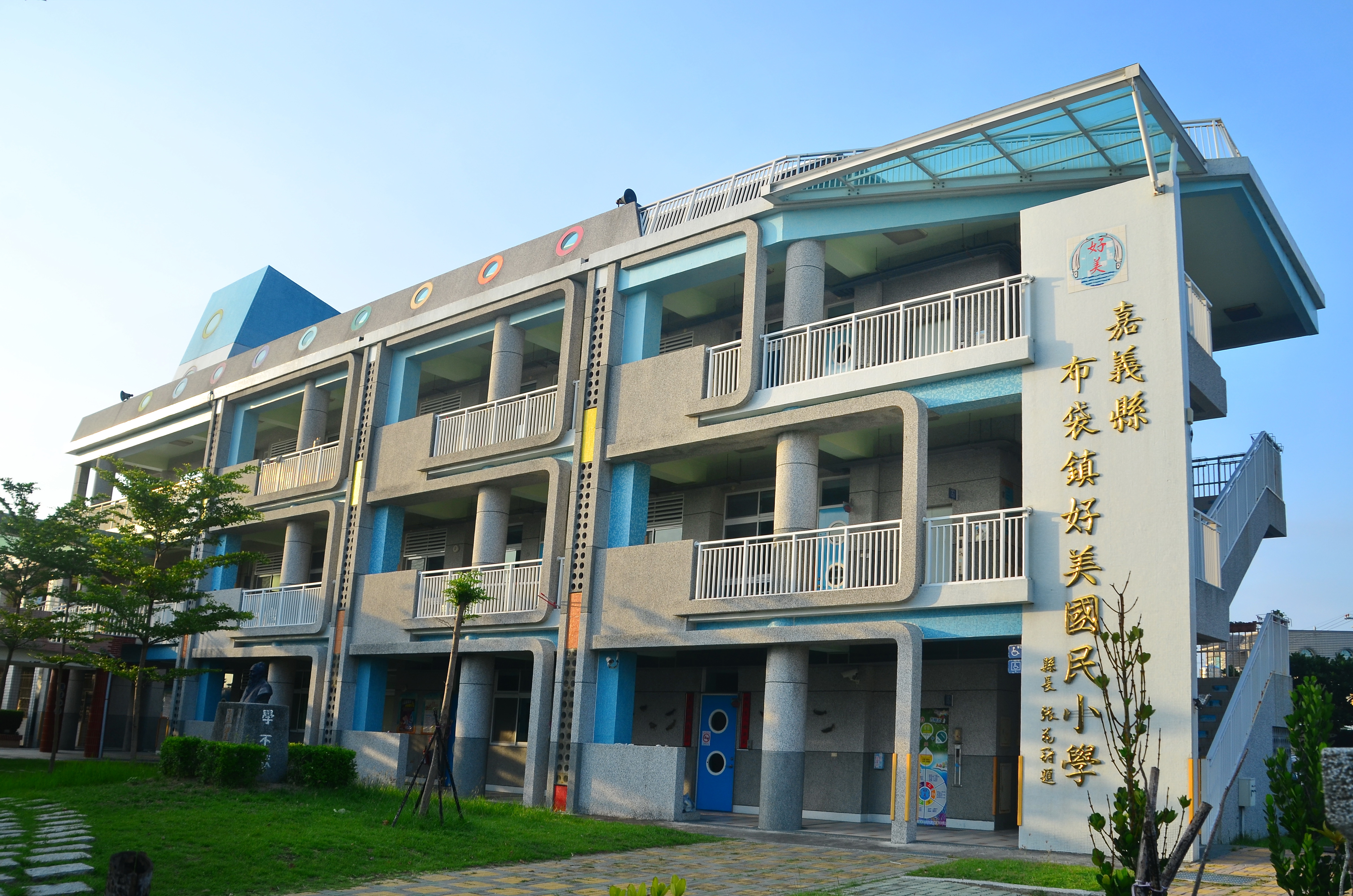 Chiayi Budai Haomei Elementary School, Budai Township, Chiayi County, Taiwan.